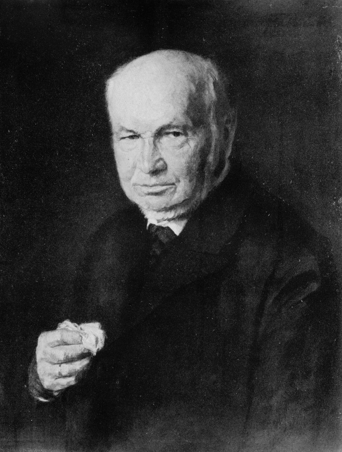 Picture of Friedrich von Bodelschwingh (1831-1916); 1906; 68:53 cm